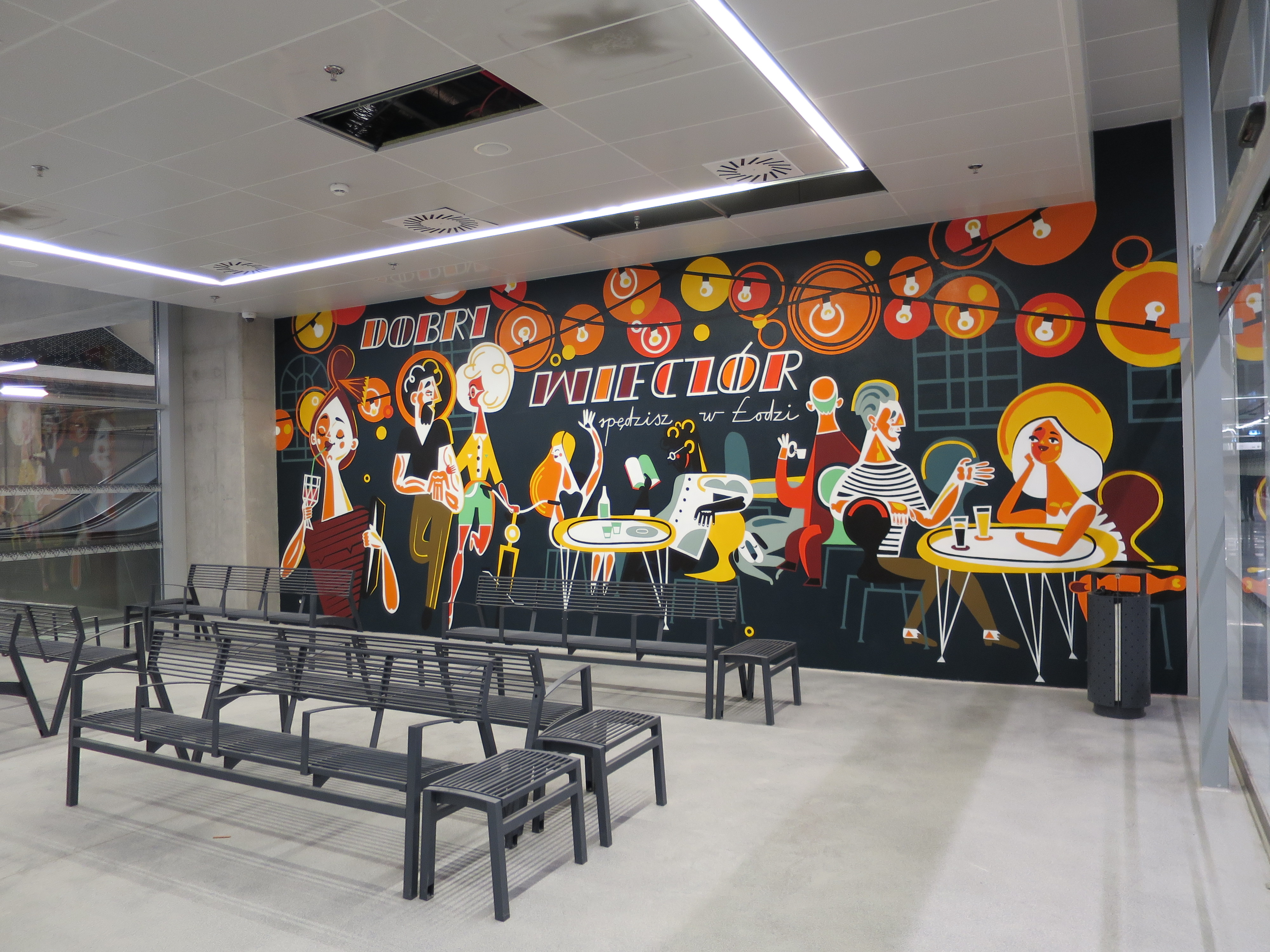 The making of this document was supported by Wikimedia Polska Association, within Wikigrant no. WG 2016-56. Łódź Fabryczna - poczekalnia